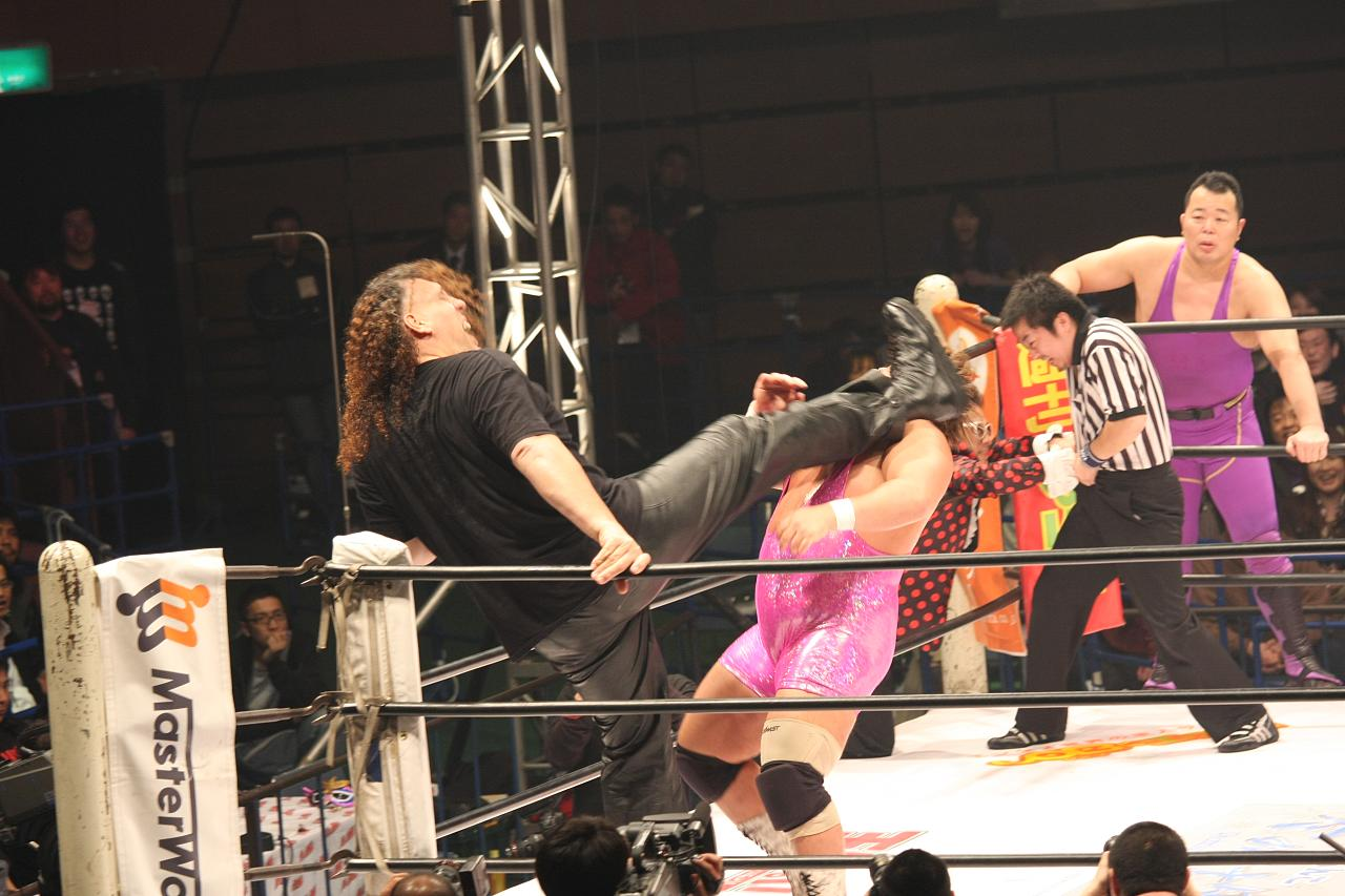 giant silva performing a big boot